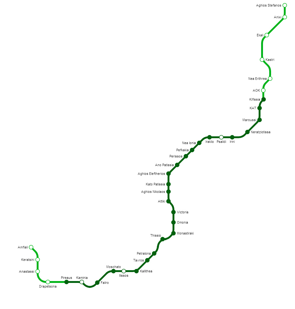 Line 1 map. Light green represents future planned extensions. Whereas white dots represent stations to be constructed.